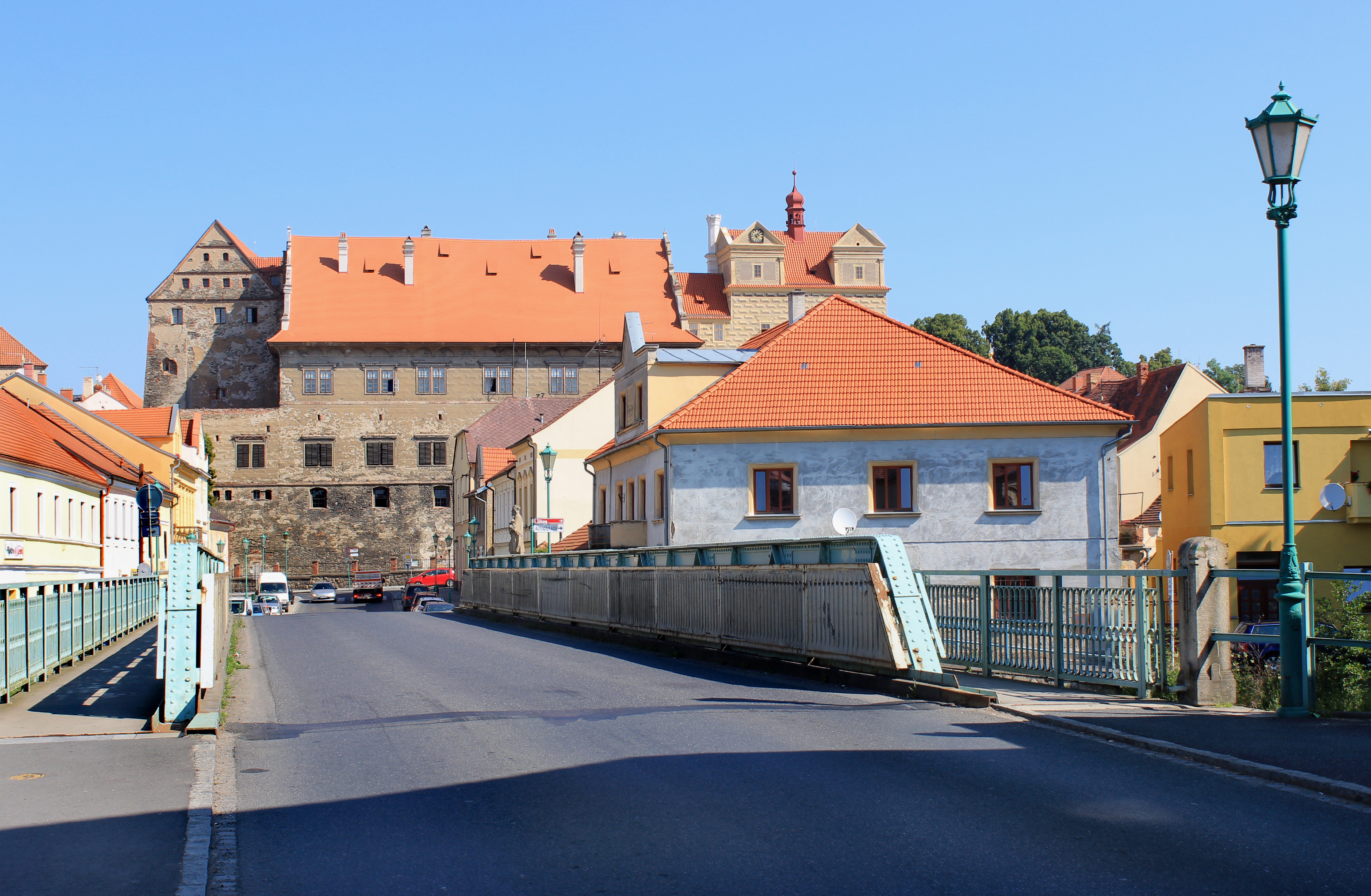 Bridge over Radbuza river in Horšovský Týn, Czech Republic, with Horšovský Týn castle in the background.